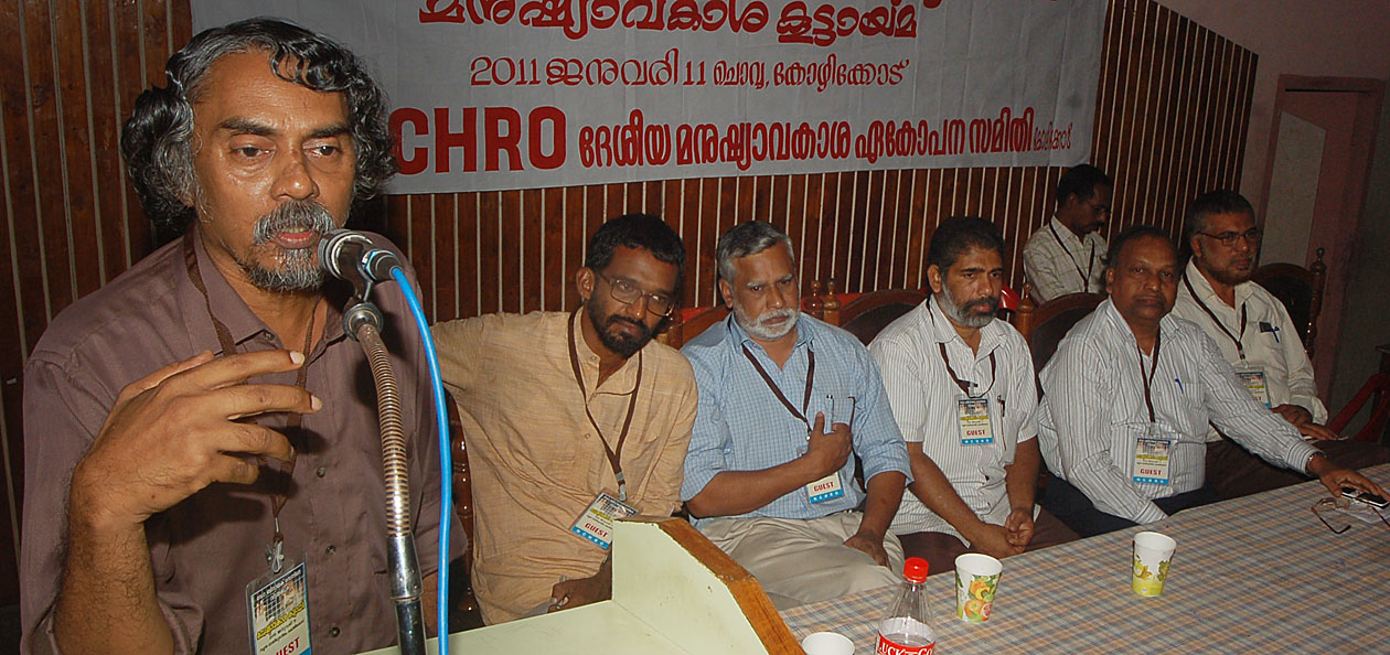 NCHRO KEN